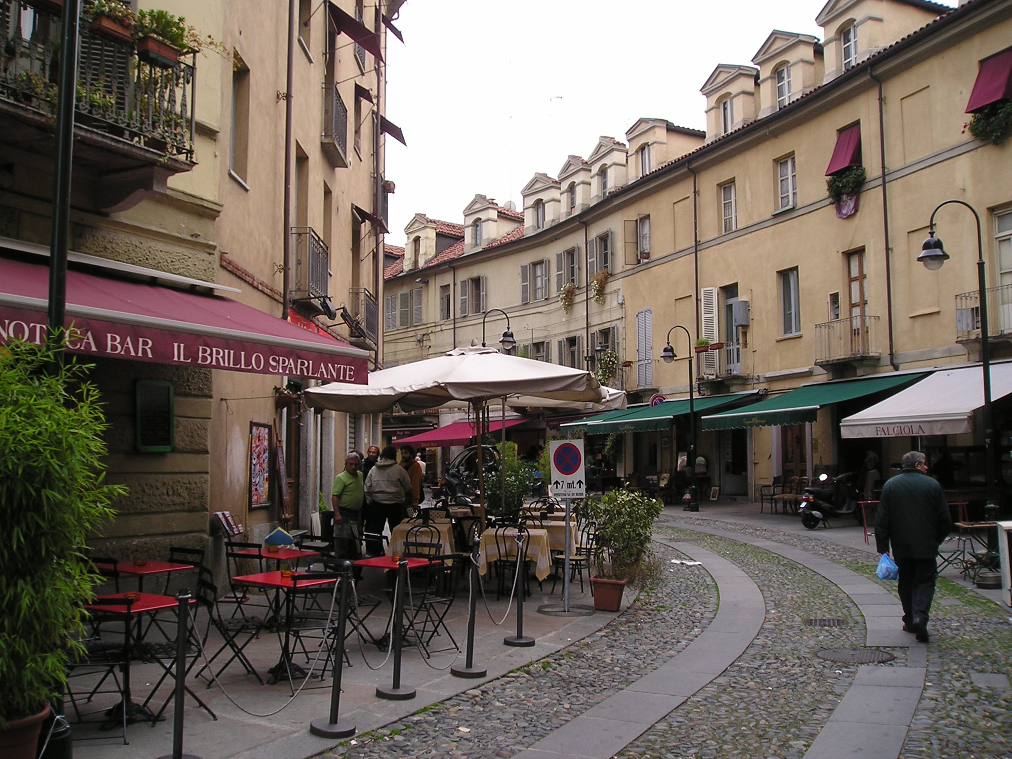 Borgo Dora in Turin